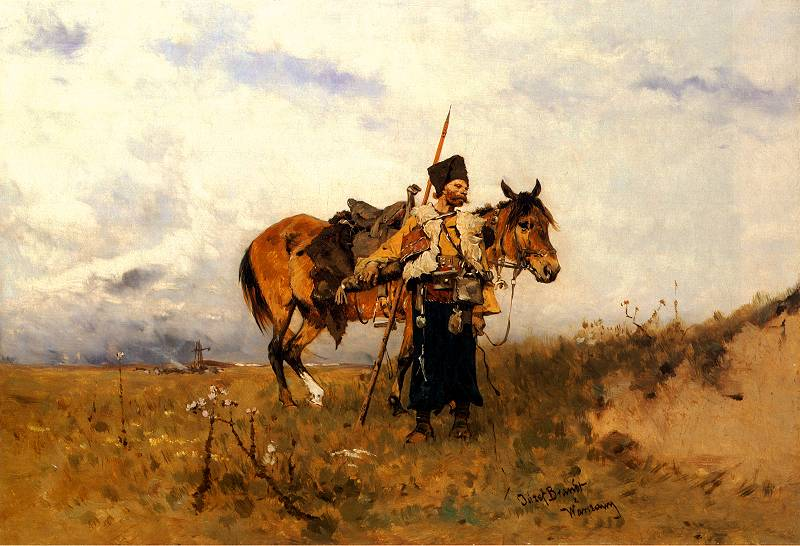 Probably set in the 16th-17th century